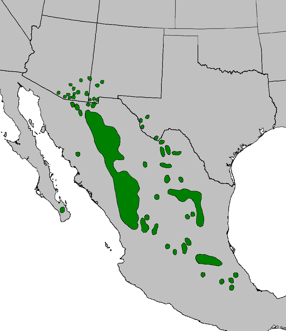 Distribution of Pinus cembroides as described in Farjon including varieties bicolor and johannis